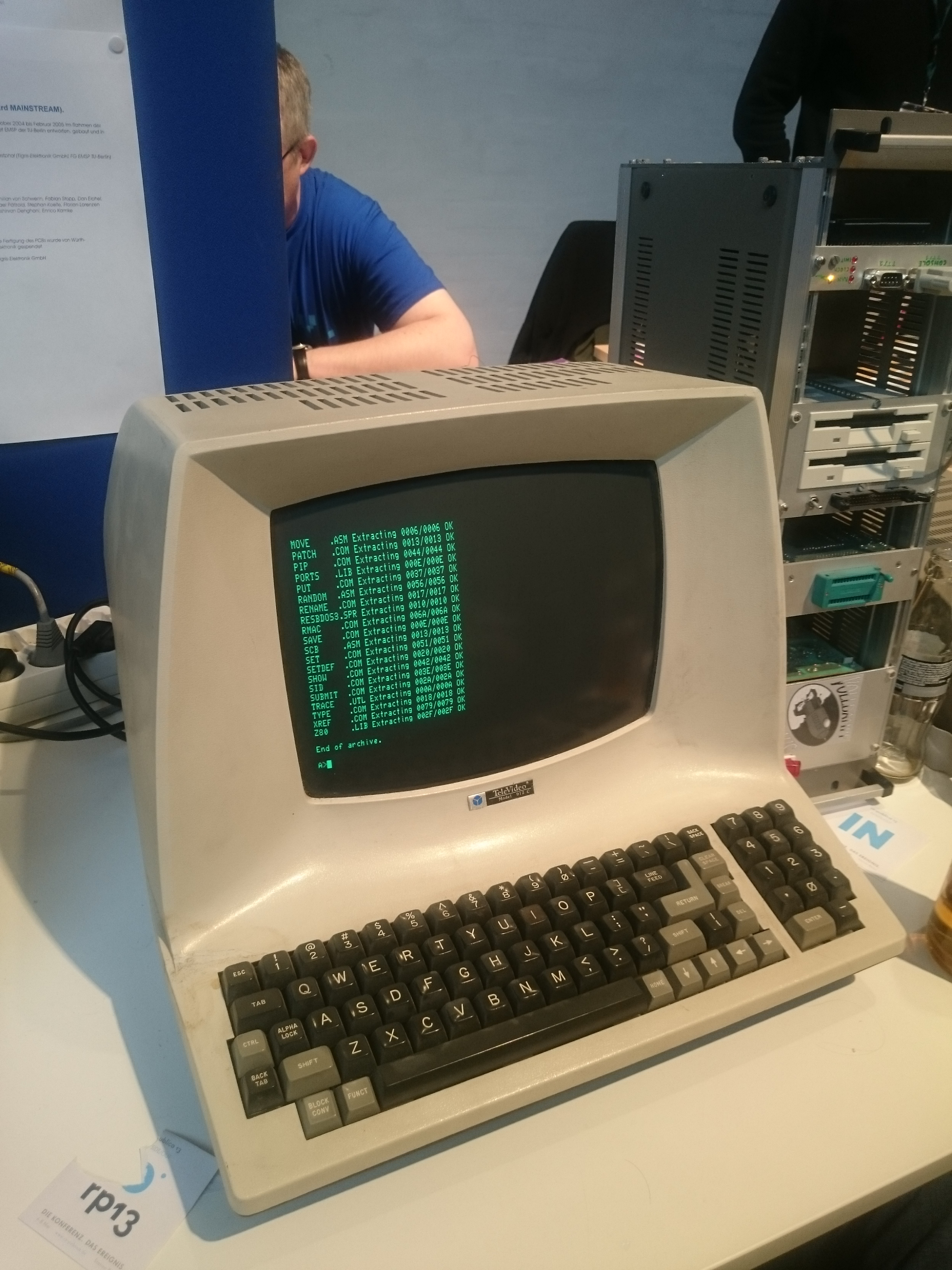 Televideo 912C On Display at the Berlin Vintage Computer Festival.